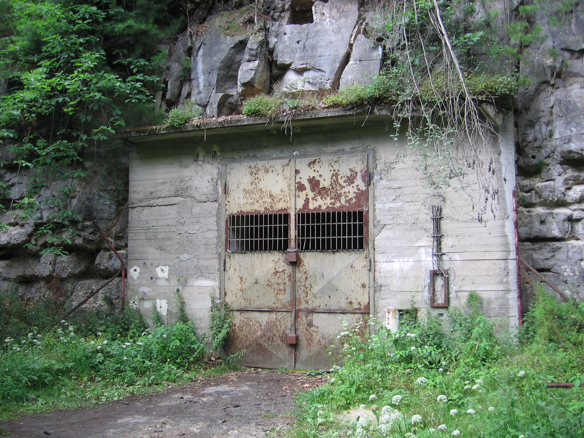 Rabštejn Underground Factory - Werk B Entrance (near Česká Kamenice, Czech Republic)